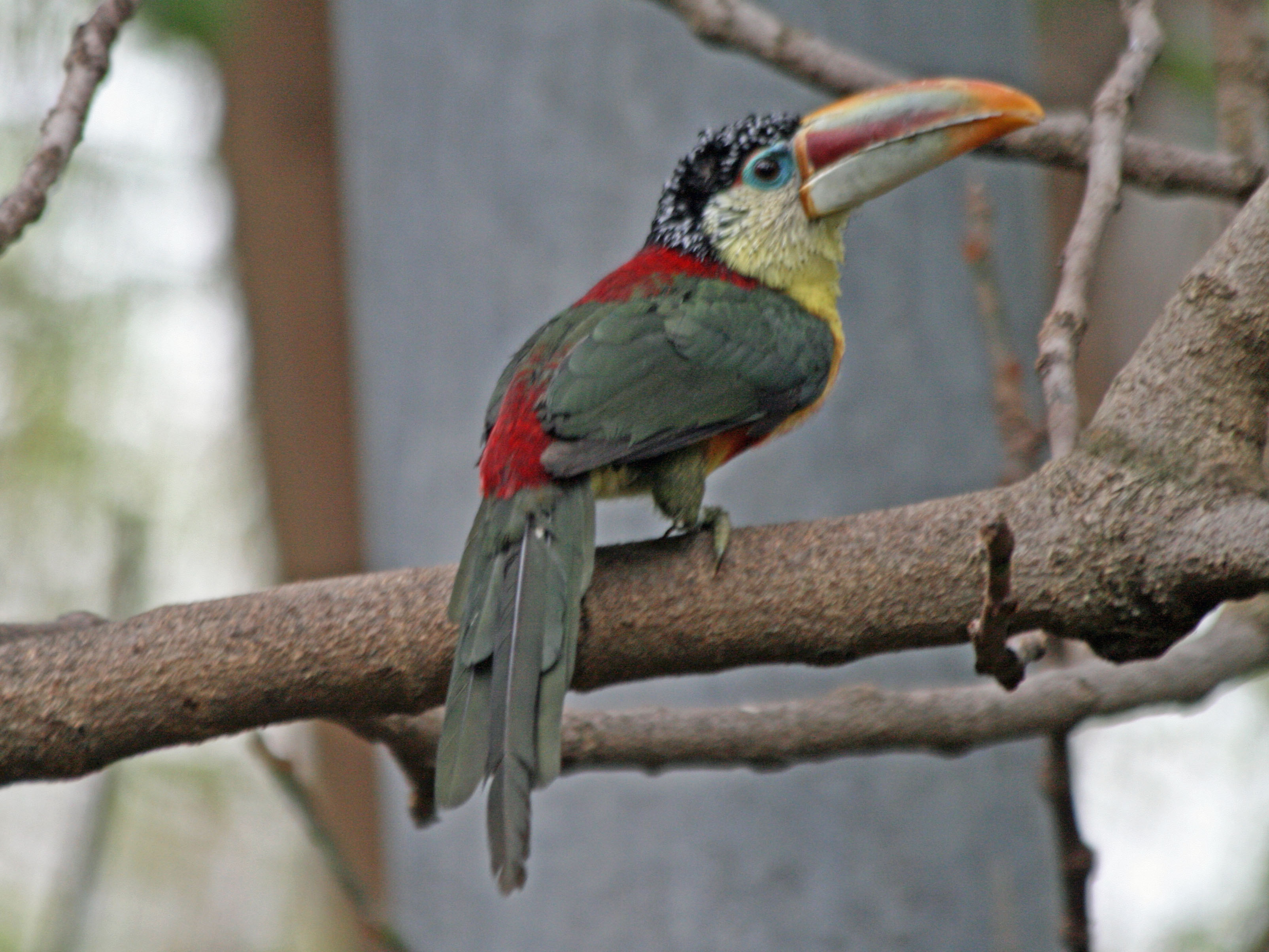 Curl-crested Aracari (Pteroglossus beauharnaesii) - San Diego Zoo